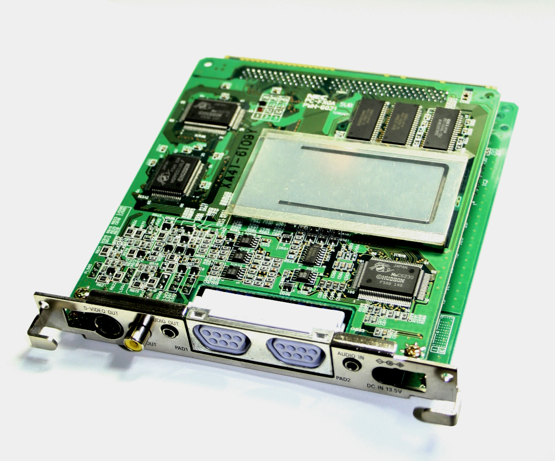 PC-FXGA for NEC PC-9800 SERIES(SLOT for C-BUS).